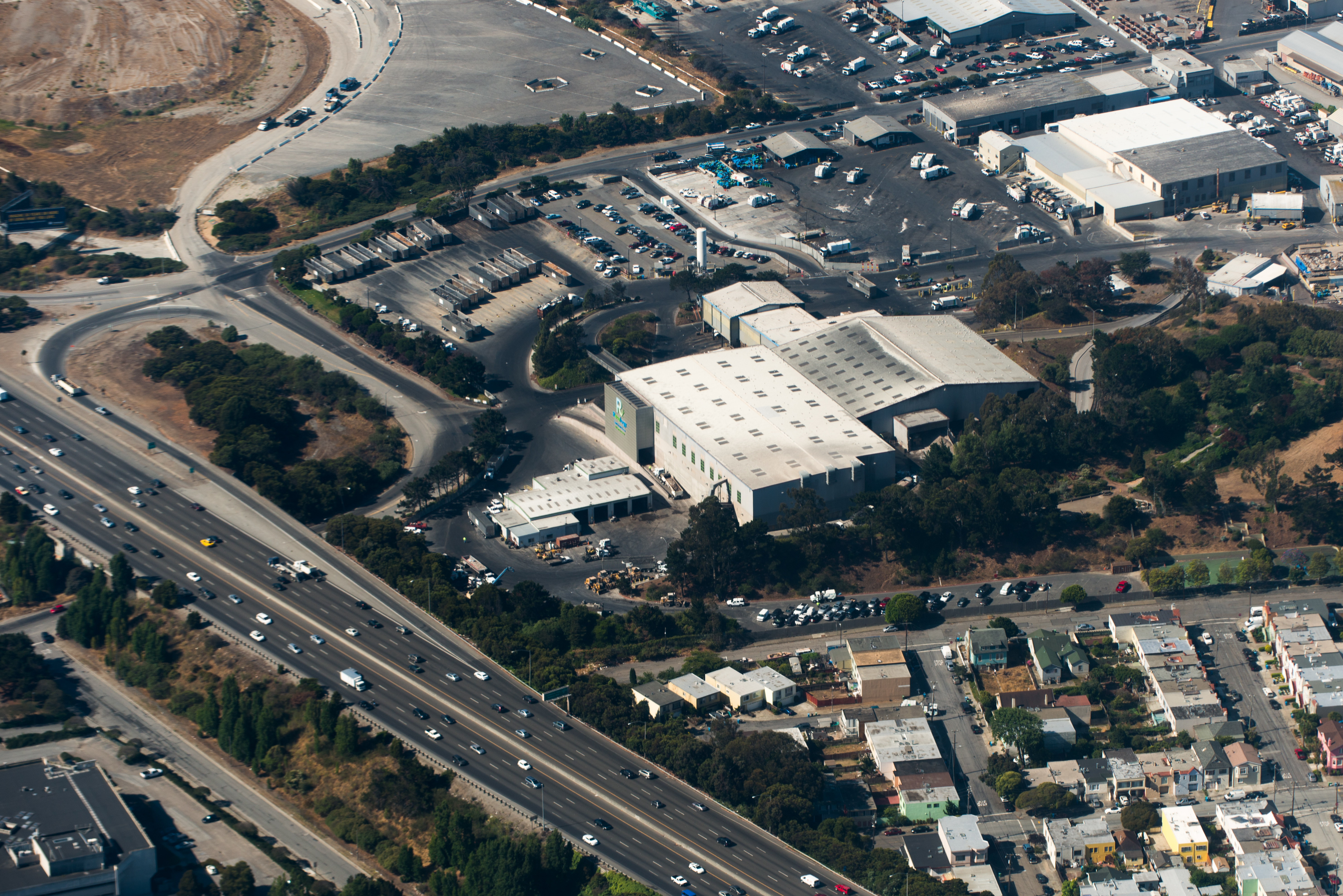 Recology handles garbage collection and processing in San Francisco. This location is the dump (transfer station) where items not suitable for curbside service can be dropped off.